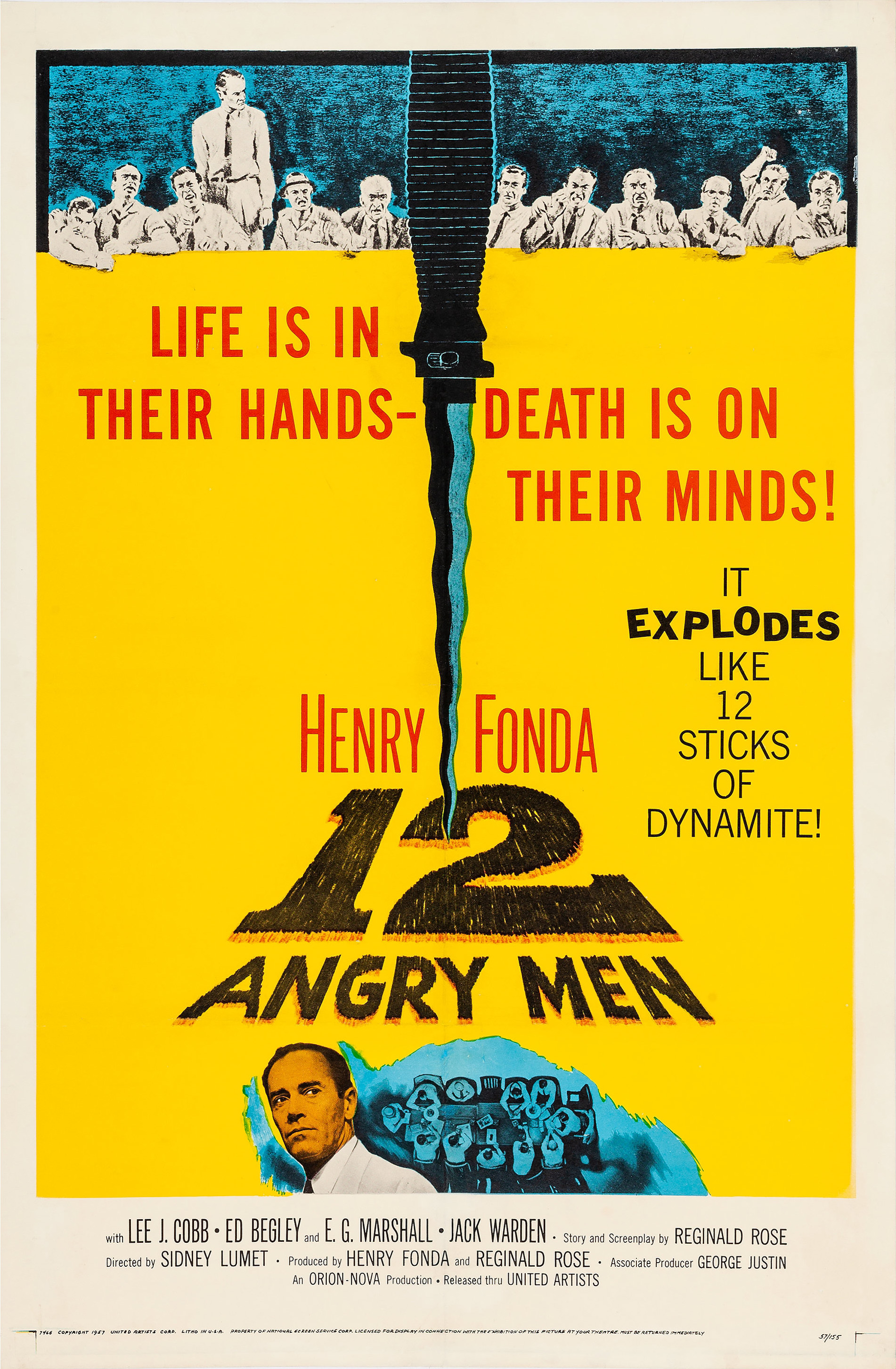 Theatrical poster for the release of the 1957 film 12 Angry Men, an adaptation of the courtroom drama of the same name.